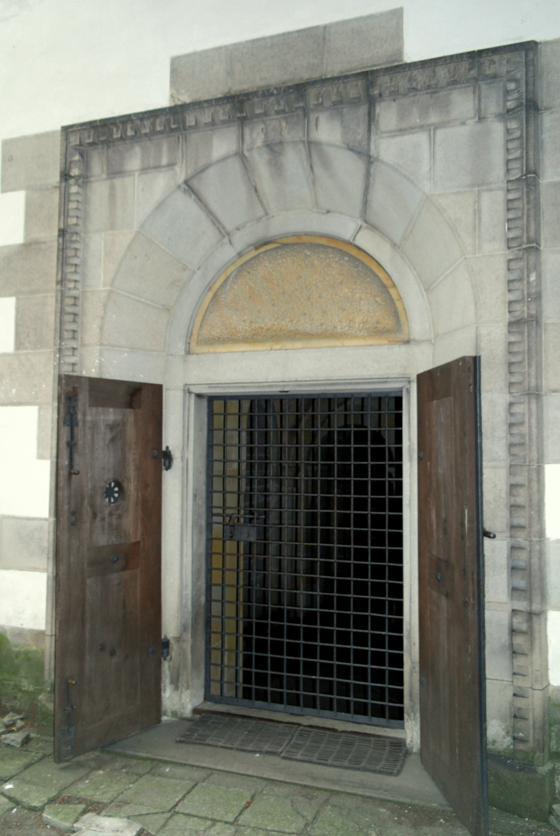 Doksany Convent, Doksany 1, Doksany. The entrance to the crypt under the church.